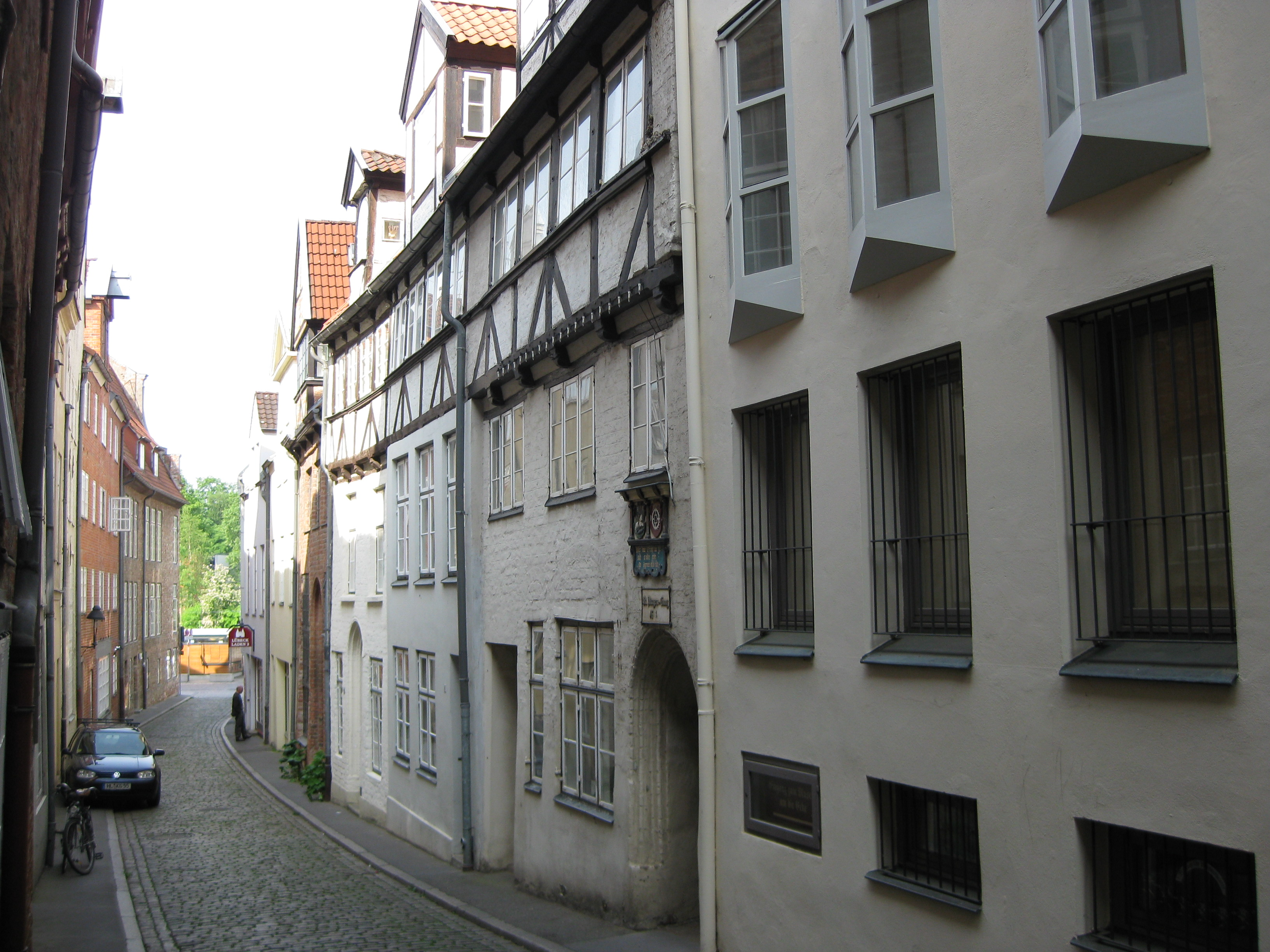 View down Kleine Petergrube from Puppet Theatre and Museum towards river Trave. Typical minor road of Lübecks old town in the quarter below St. Petri church.